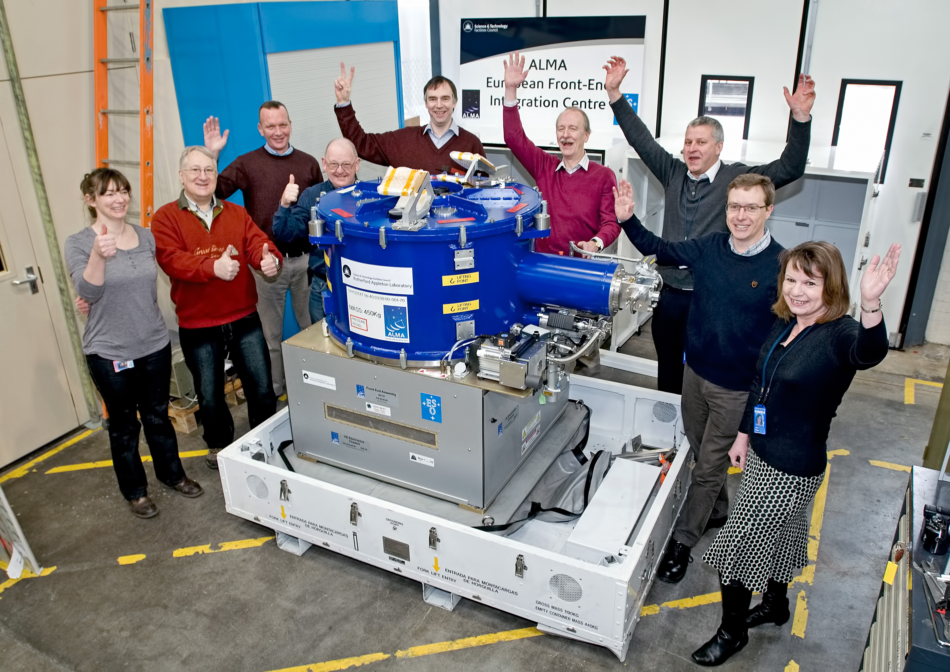 The team at the ALMA project's European Front End Integration Centre at the Rutherford Appleton Laboratory, UK, say goodbye to the last ALMA front end, before it is shipped to the observatory site in Chile.